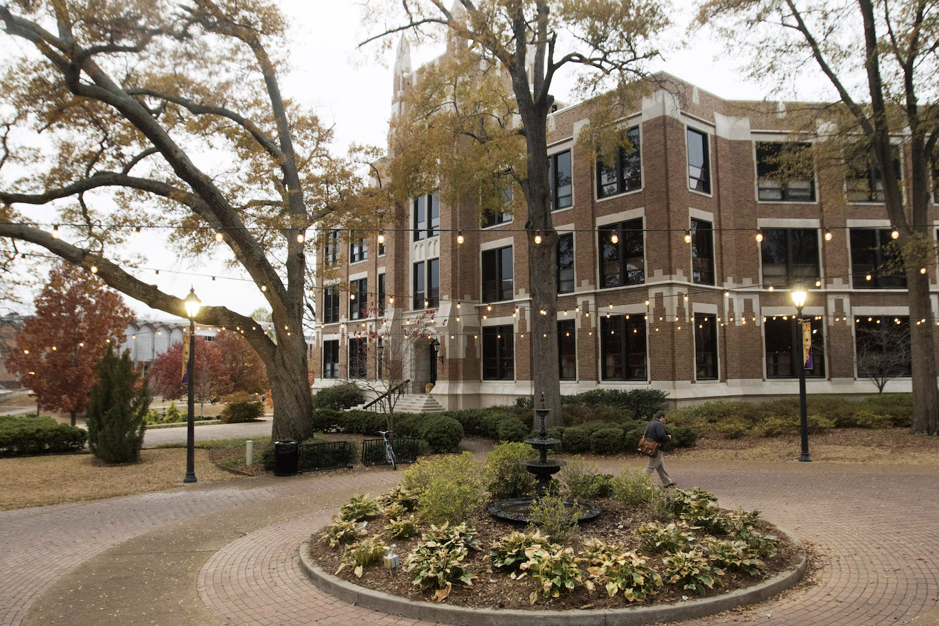 Bibb Graves Hall - UNA